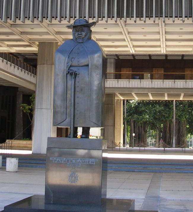 An image of the father Damien statue in front of the Hawaii state capitol. The statue of Queen Liliuokalani is visible on the opposite side of the building.